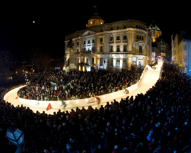 Red Bull Crashed Ice in Quebec City in 2007